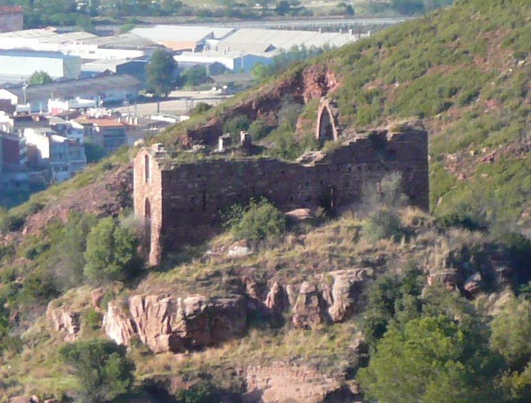 Sant Genís de Rocafort, Martorell (Baix Llobregat, Catalonia